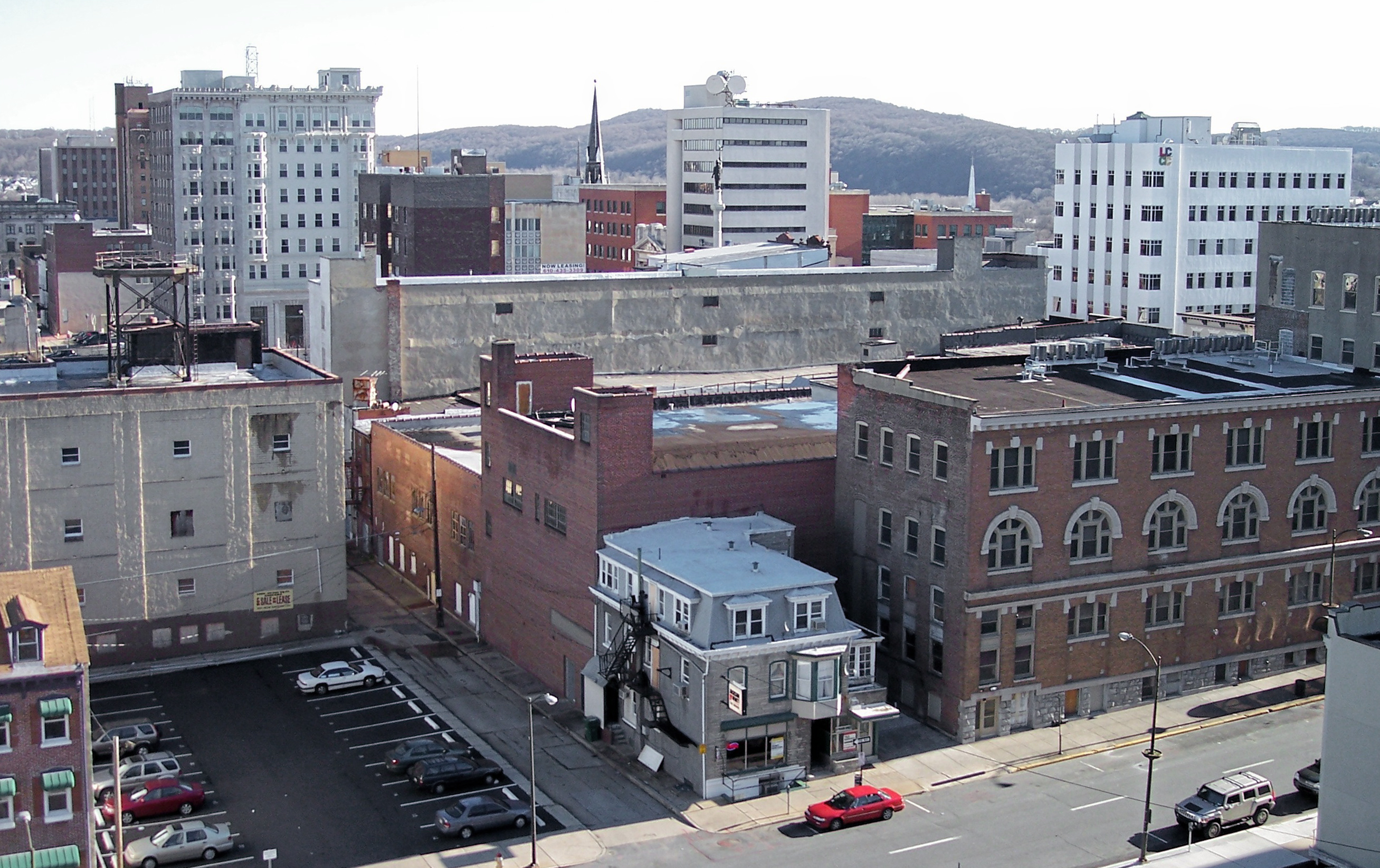 A portion of downtown Allentown, Pennsylvania, as viewed from atop a parking garage on West Linden Street. Photo taken before re-development of the Central Business District. Most of these buildings were raised in 2012 for the development of the PPL Arena and One City Center building.